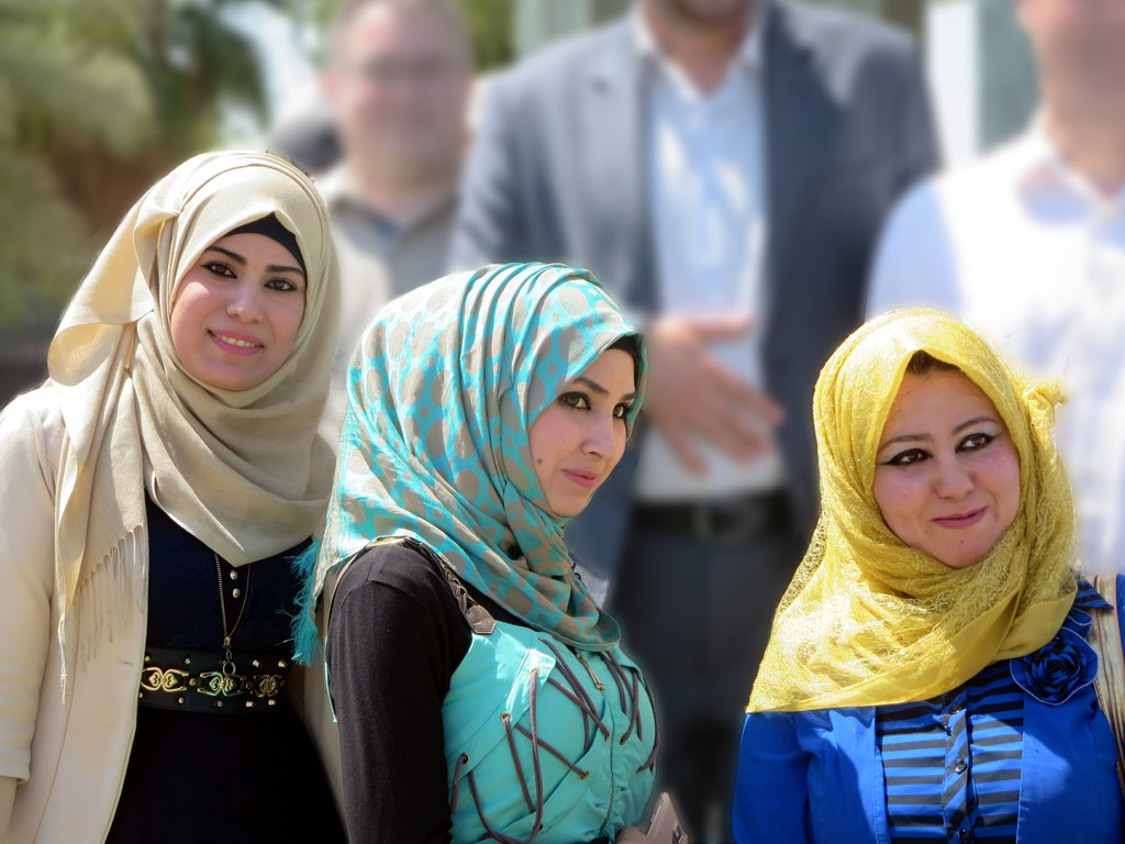 Iraqi beauties encountered in Baghdad.